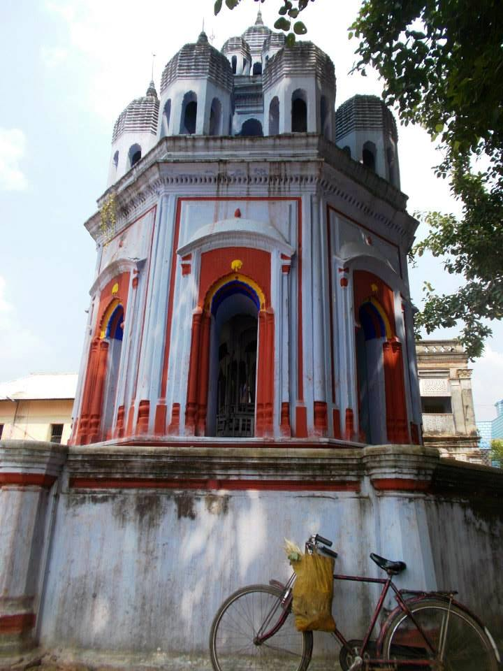 300 years old temple